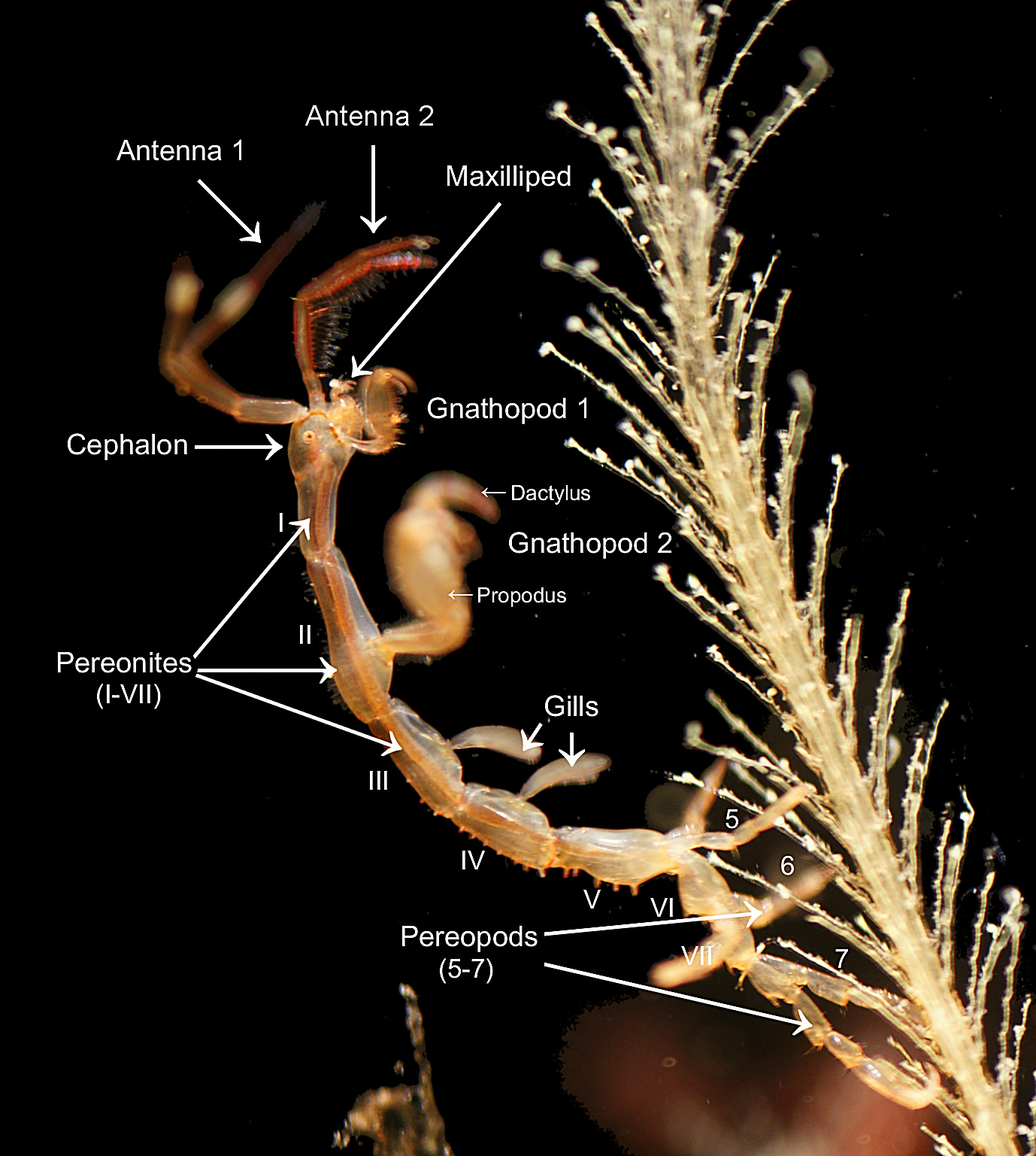 Japanese skeleton shrimp, Belgium